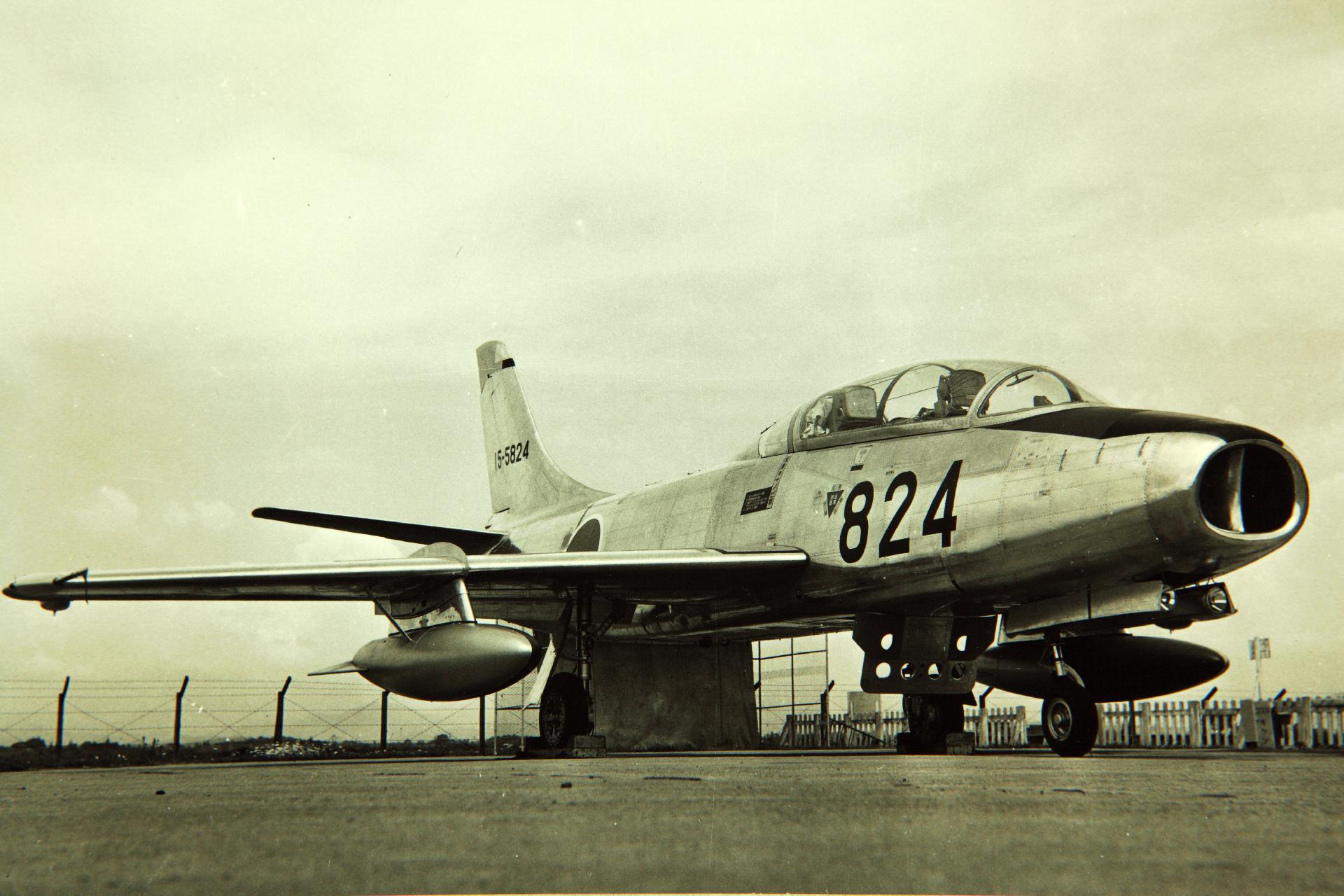 Fuji, T-1A